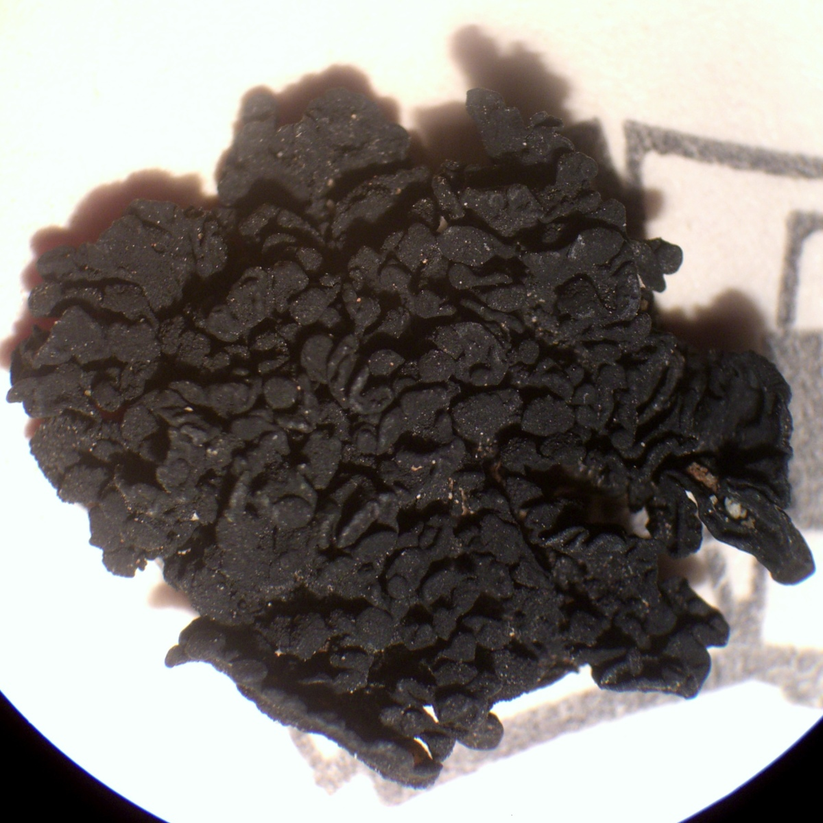 The lichen Lichinella nigritella (Lettau) P. Moreno & Egea. Specimen photographed in Rim of Marble Canyon, Grand Canyon National Park, Coconino Co., Arizona, USA.